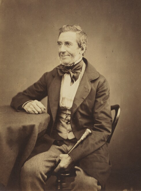 Photograph of the English entomologist John Curtis. Albumen print, arched top, 1855 7 3/4 in. x 5 3/4 in. (197 mm x 146 mm). Purchased, 1979. Primary Collection. National Portrait Gallery. NPG P120(36)